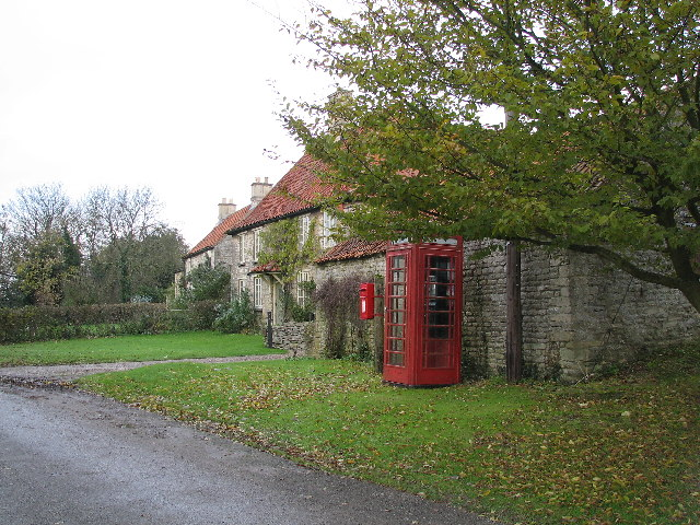 College Farm & Laburnum Cottage,Braceby.